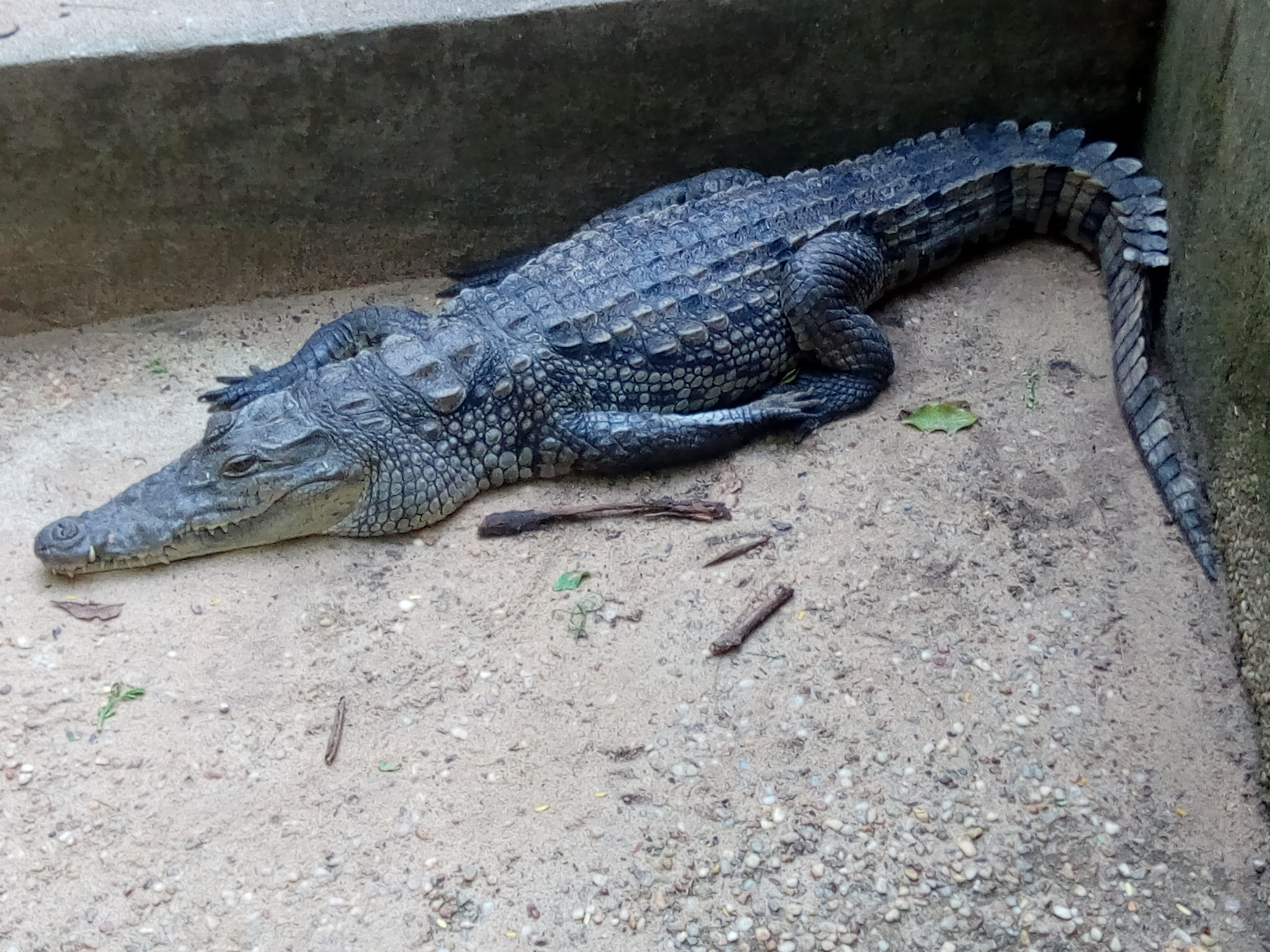 The botanical and zoological garden of the University of Abomey-Calavi is composed of various animal and plant species. One of the animal species in this garden is this crocodile